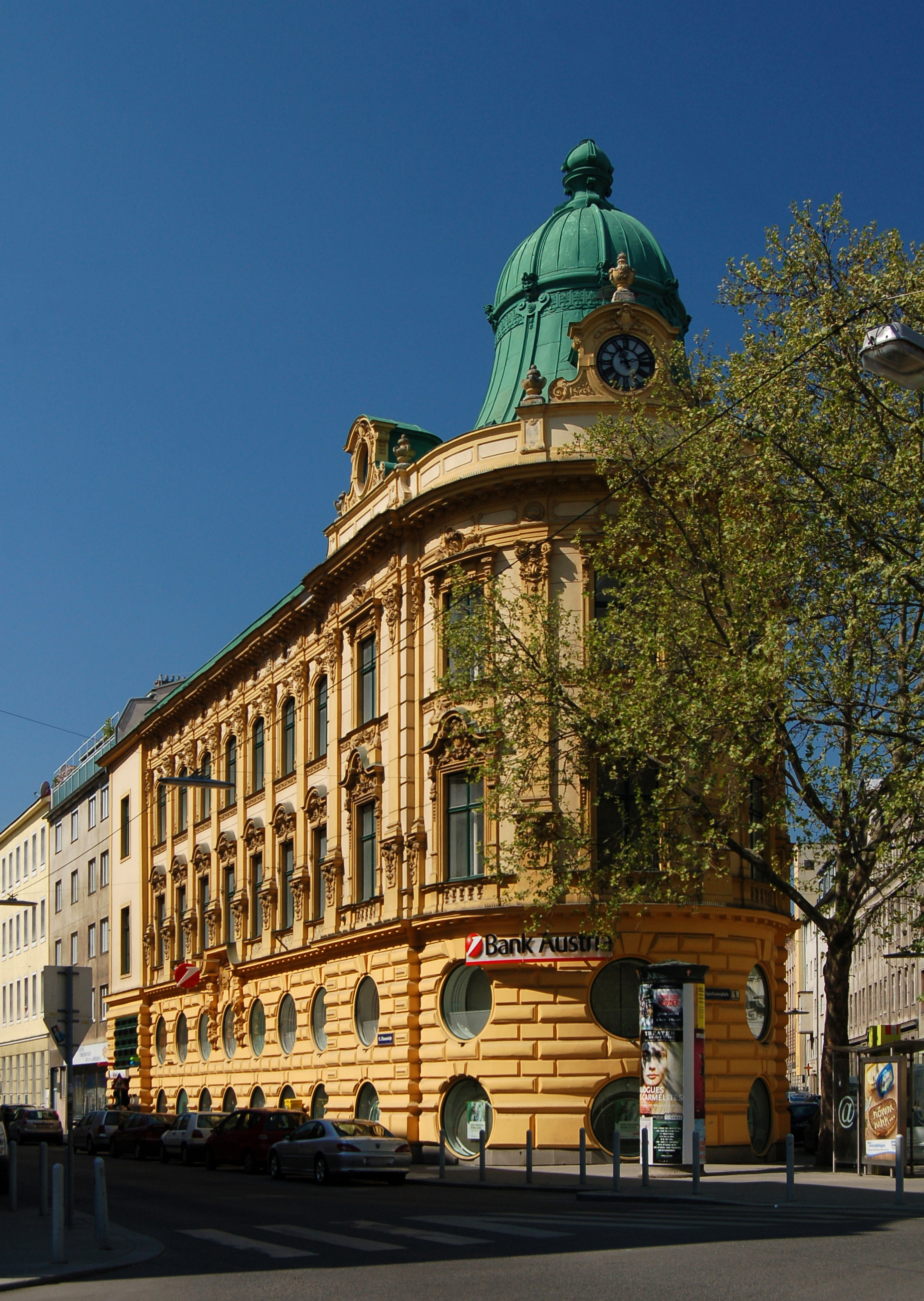 The house at Sparkassaplatz 4, 15th district of Vienna, was built in 1884 for the Rudolfsheimer Kommunalsparkasse (a local bank), which was later acquired by the Wiener Zentralsparkasse.